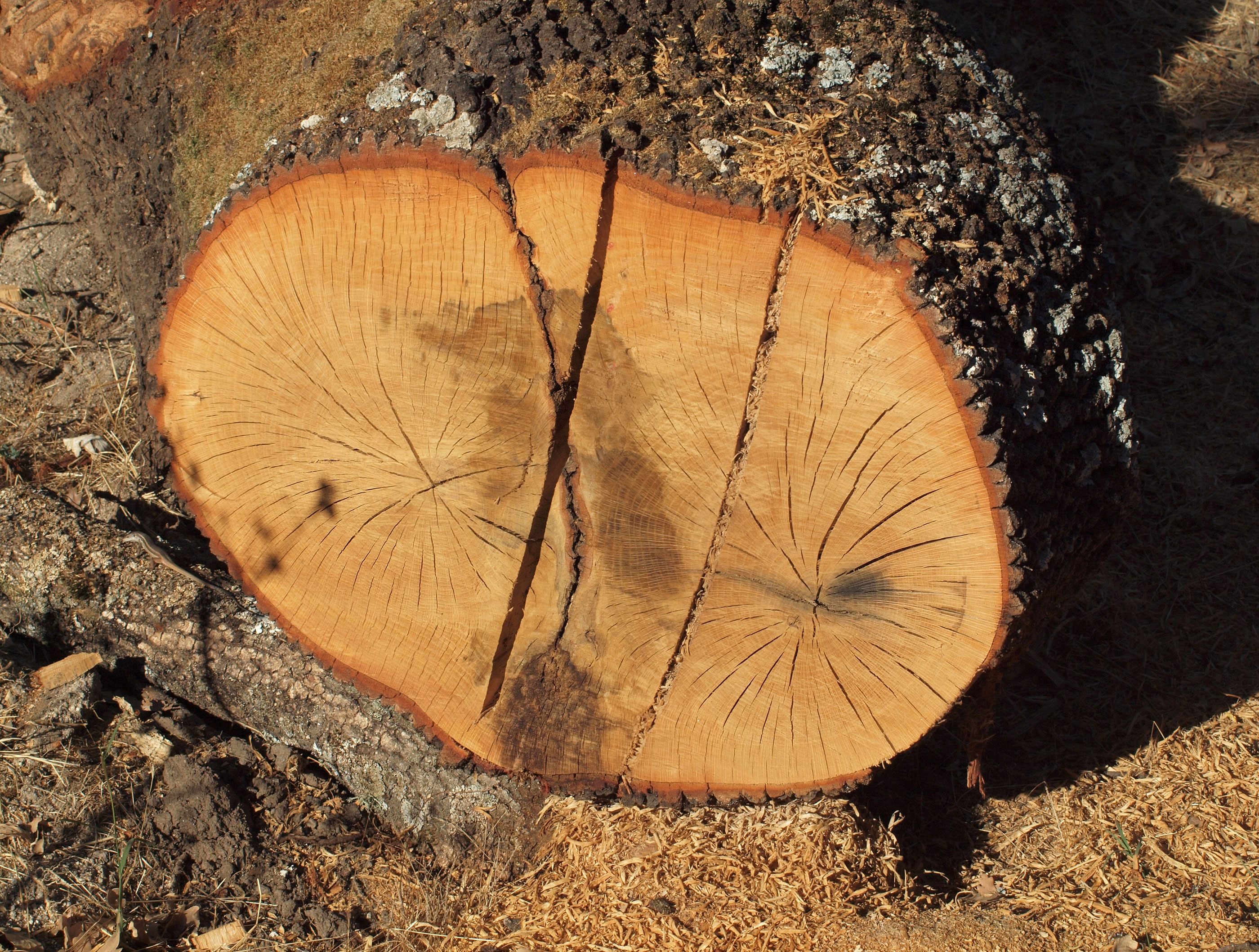 Quercus pyrenaica double trunk. Losar de la Vera (Cáceres, España).